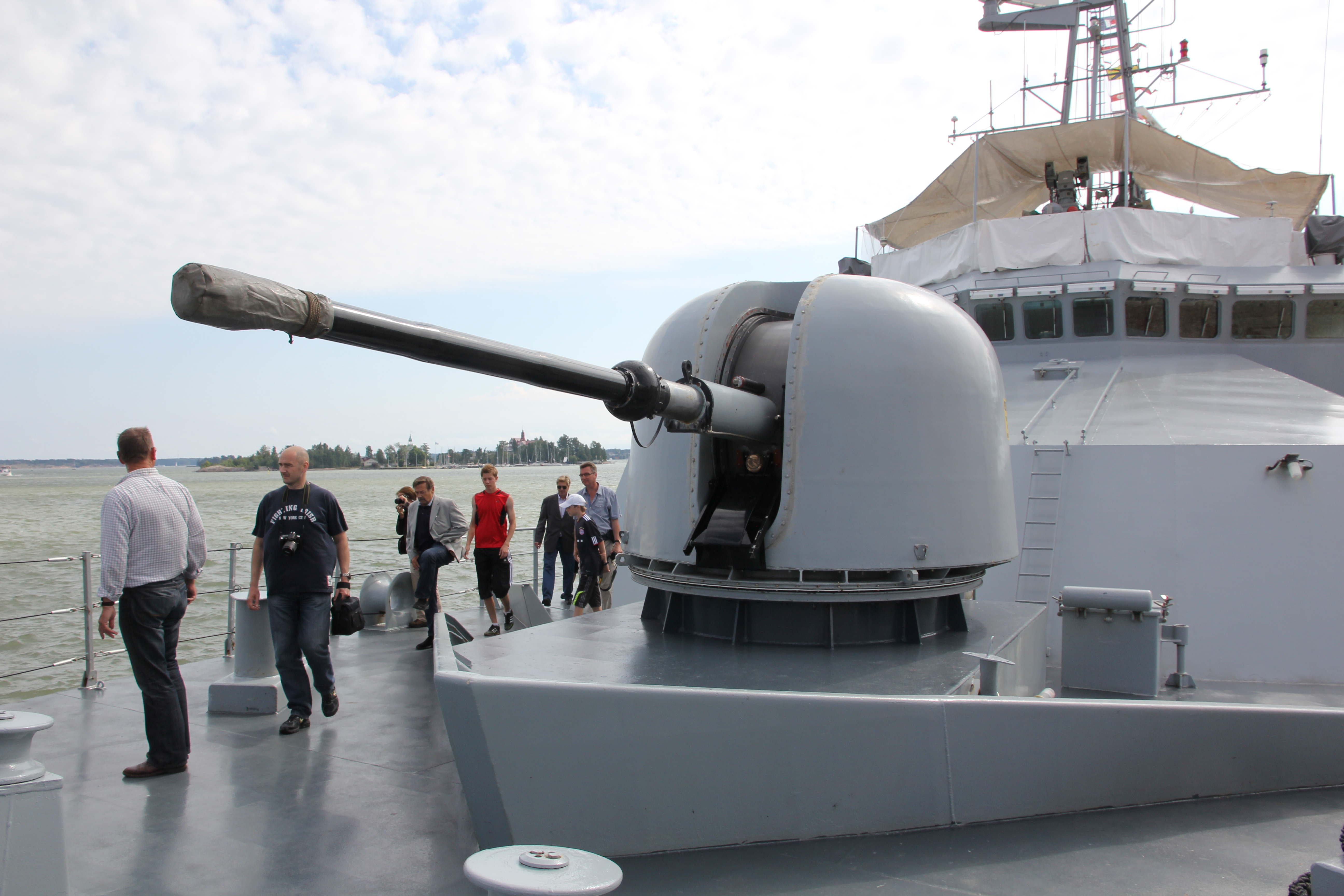 Bow Otobreda 76 mm gun of Irish offshore patrol ship LÉ Róisín (P51) photographed in Helsinki.